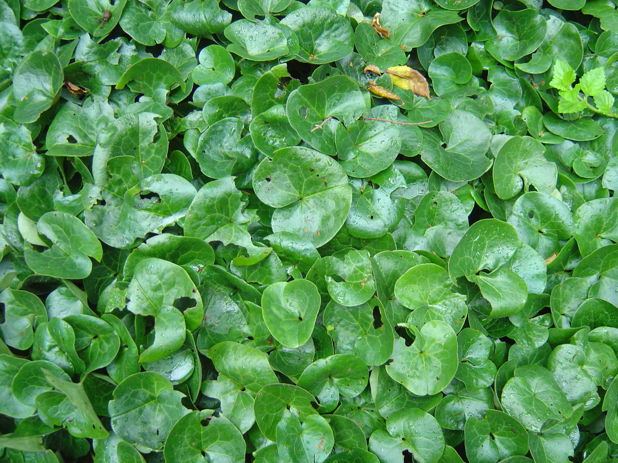 A dense colony of European wild ginger (Asarum europaeum) at the Botanical Gardens in Münster, Germany